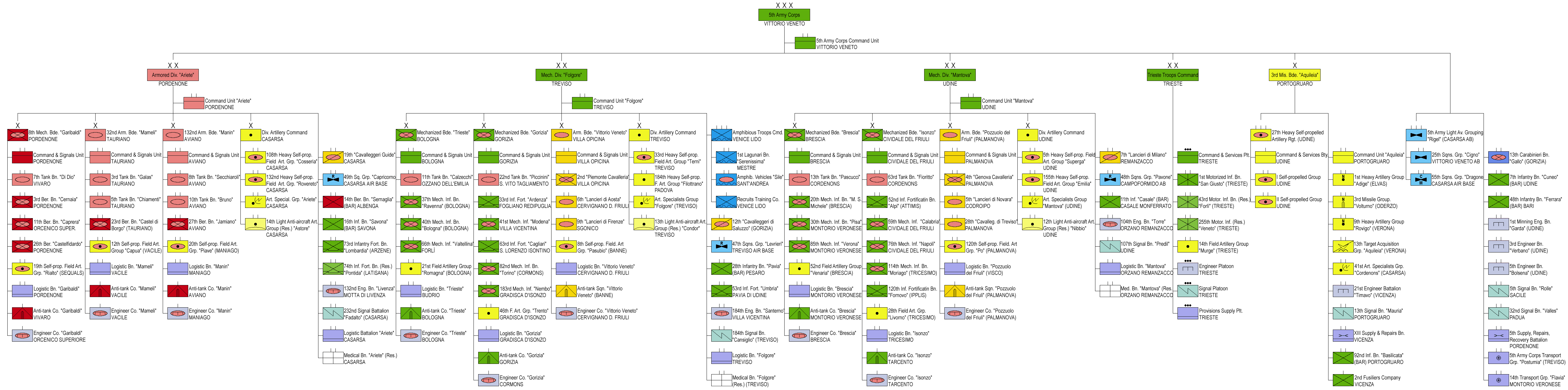 Structure of the Italian Army's 5th Army Corps in 1977